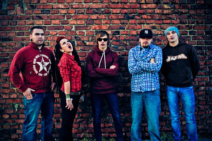 jinjer